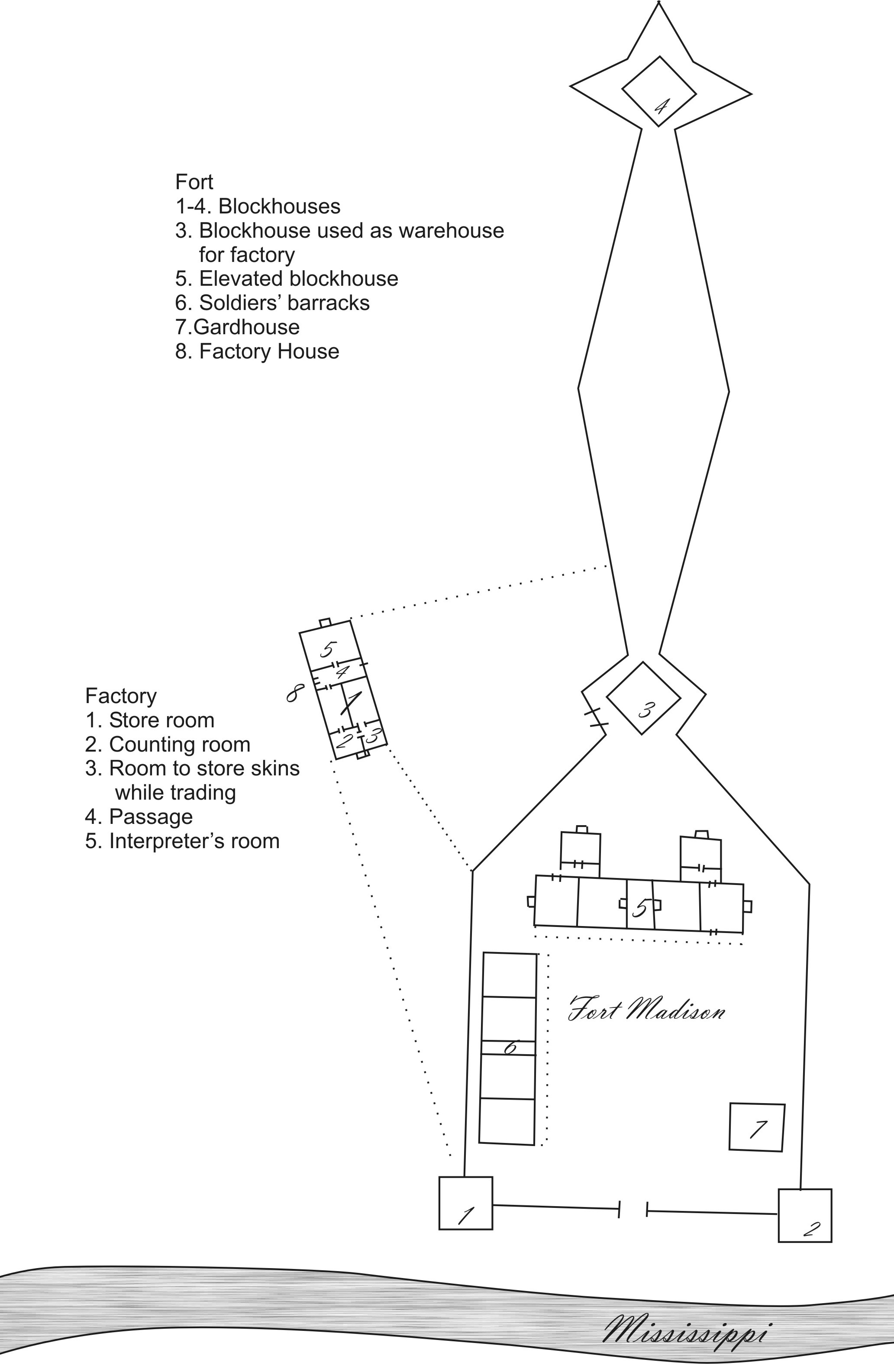 John Johnson's 1810 map of Fort Madison. Johnson was the U.S. trading factor. Appears in contributor's book : Frontier Forts of Iowa, p.61, ISBN 9781587298820